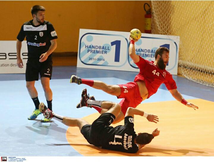 Сигурен погодок